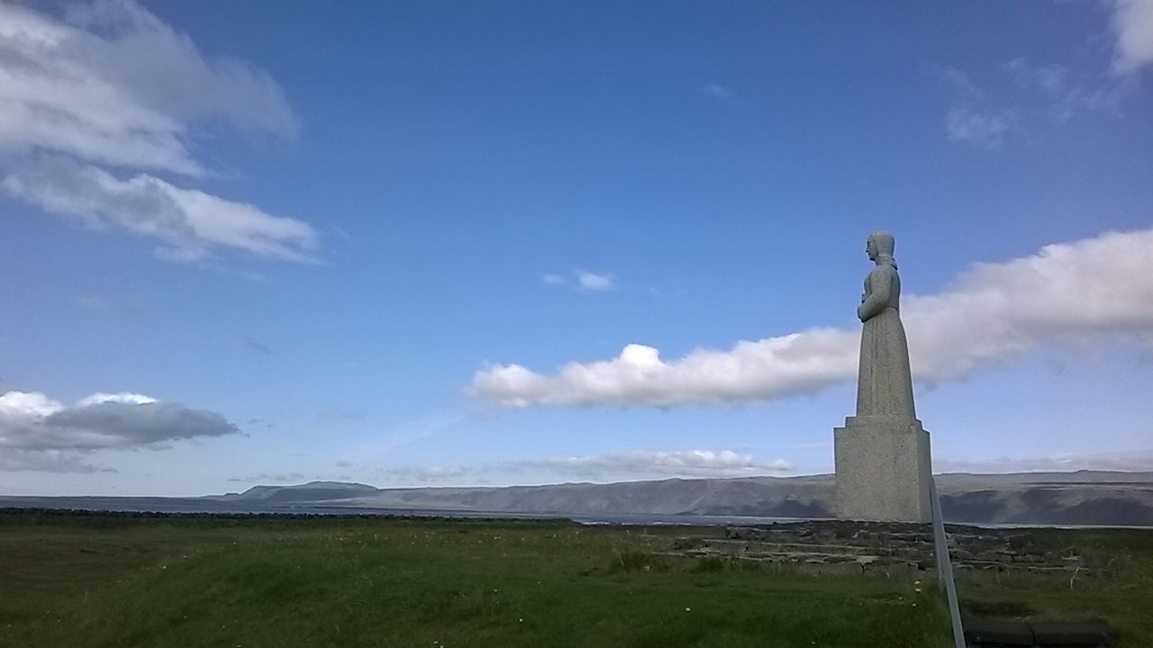 Reykjanes, Iceland